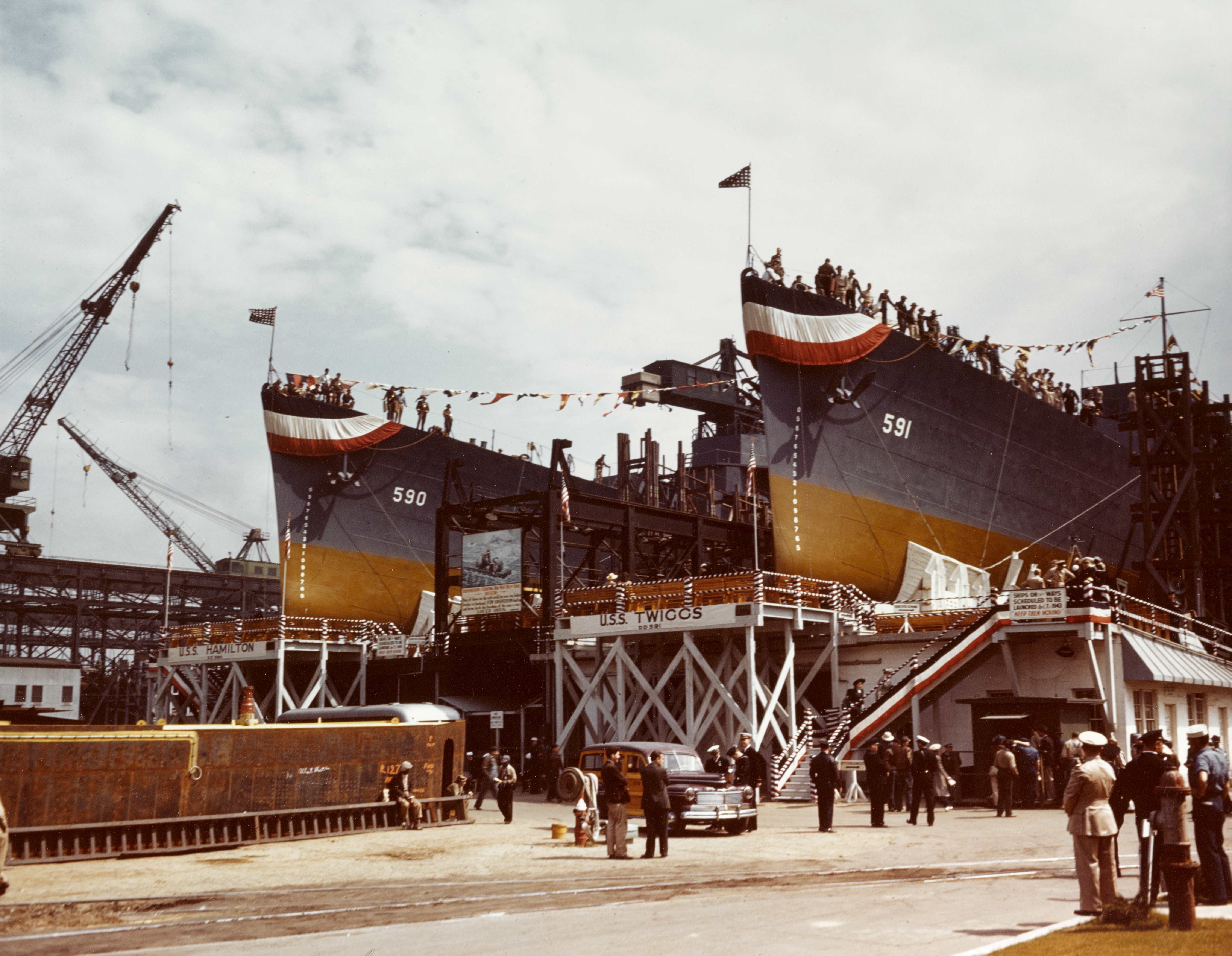 The U.S. Navy destroyer USS Paul Hamilton (DD-590) and USS Twiggs (DD-591) ready for launching at the Charleston Naval Shipyard, South Carolina (USA), 7 April 1943.